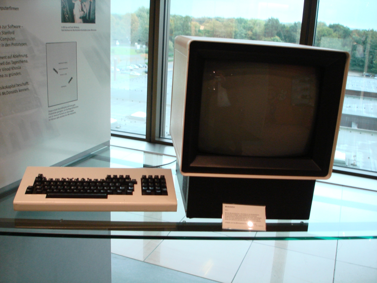 Sun 100 desktop workstation spotted at Heinz Nixdorf MuseumsForum in Paderborn, Germany